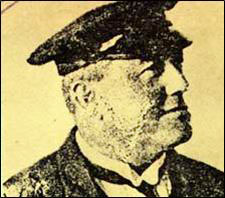 The only known photograph of Baron Bliss